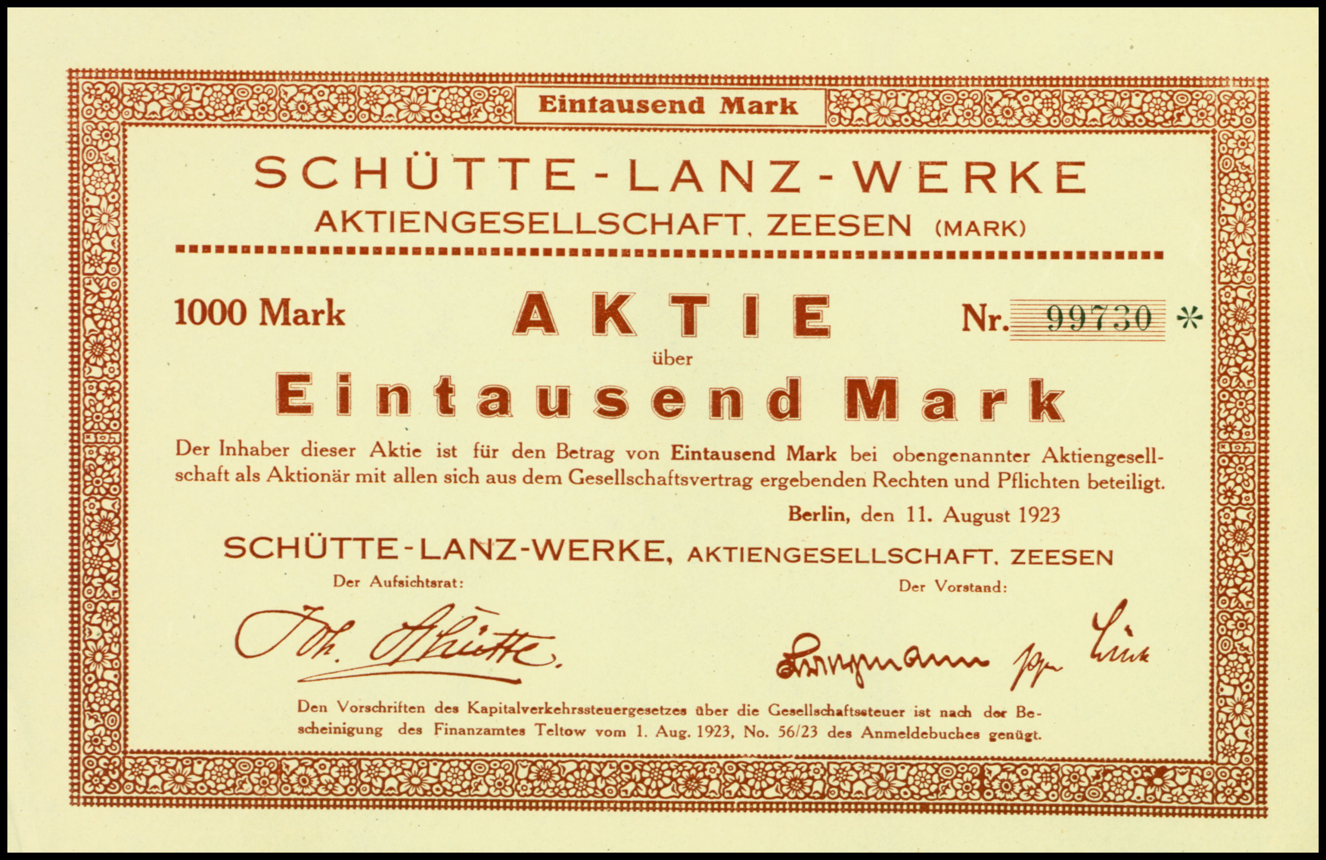 Share of the Schütte-Lanz-Werke AG, issued 11. August 1923